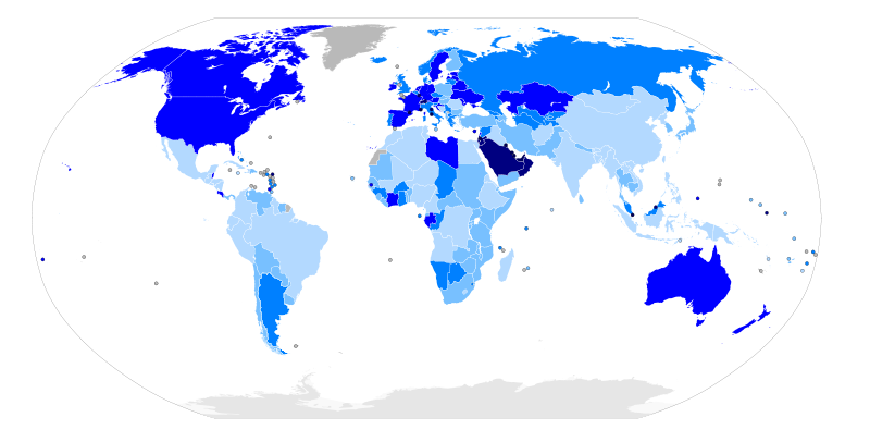 Map of the world with countries coloured according to their immigrant population as a percentage of the whole population, based on the UN's World Population Policies 2005 data ([1]). Legend: no data more than 50% 20% to 50% 10% to 20% 4% to 10% 1% to 4% less than 1%